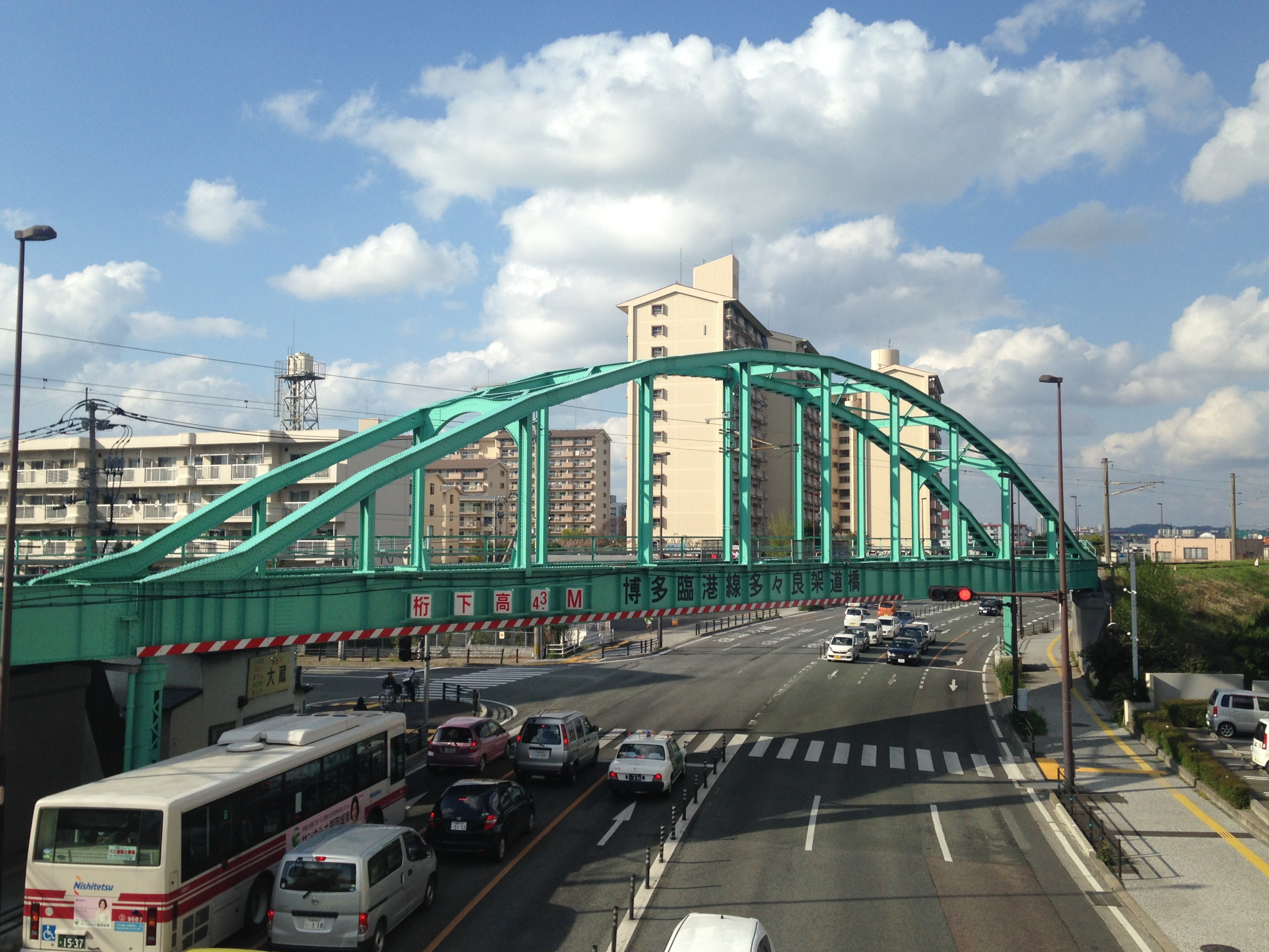 The Tatara Overbridge over the National Route 3 on the Hakata Rinko Line